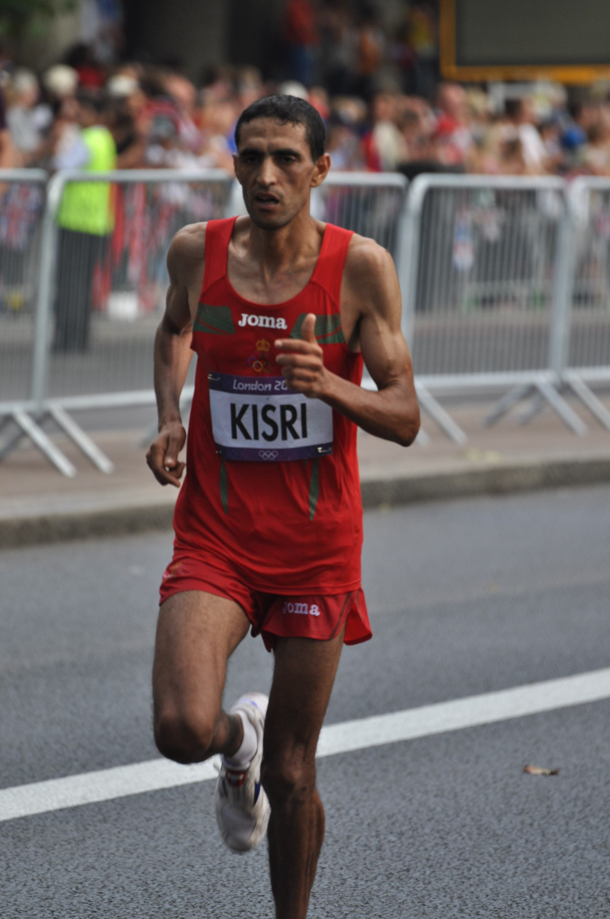 The men's marathon of the 2012 Summer Olympics in London, UK took place on an Olympic marathon street course on Sunday 12th August 2012 at 11:00. This was the final day of the 30th Olympic Games. The London 2012 marathon course is the standard Olympic distance of 26 miles 385 yards and consists of one short lap of approx 2.2 miles followed by three longer laps of 8 miles. The course began on The Mall and travelled past several of the most famous London landmarks. The start/finish line was near the Victoria Memorial. These photographs were taken at the Victoria Embankment. This featured several times on the looped course. The approximate location from the photographs is shown in the Google StreetView Link below. Stephen Kiprotich won in 2 hours, 8 minutes, 1 second as he pulled away from the Kenyan duo of Abel Kirui and Wilson Kiprotich Kipsang. These photographs are unofficial photographs. They are not endorsed by London 2012. There are not commercially available. They are available for use under a Creative Commons License. Please link back to the photograph on my Flickr account if you use the image.